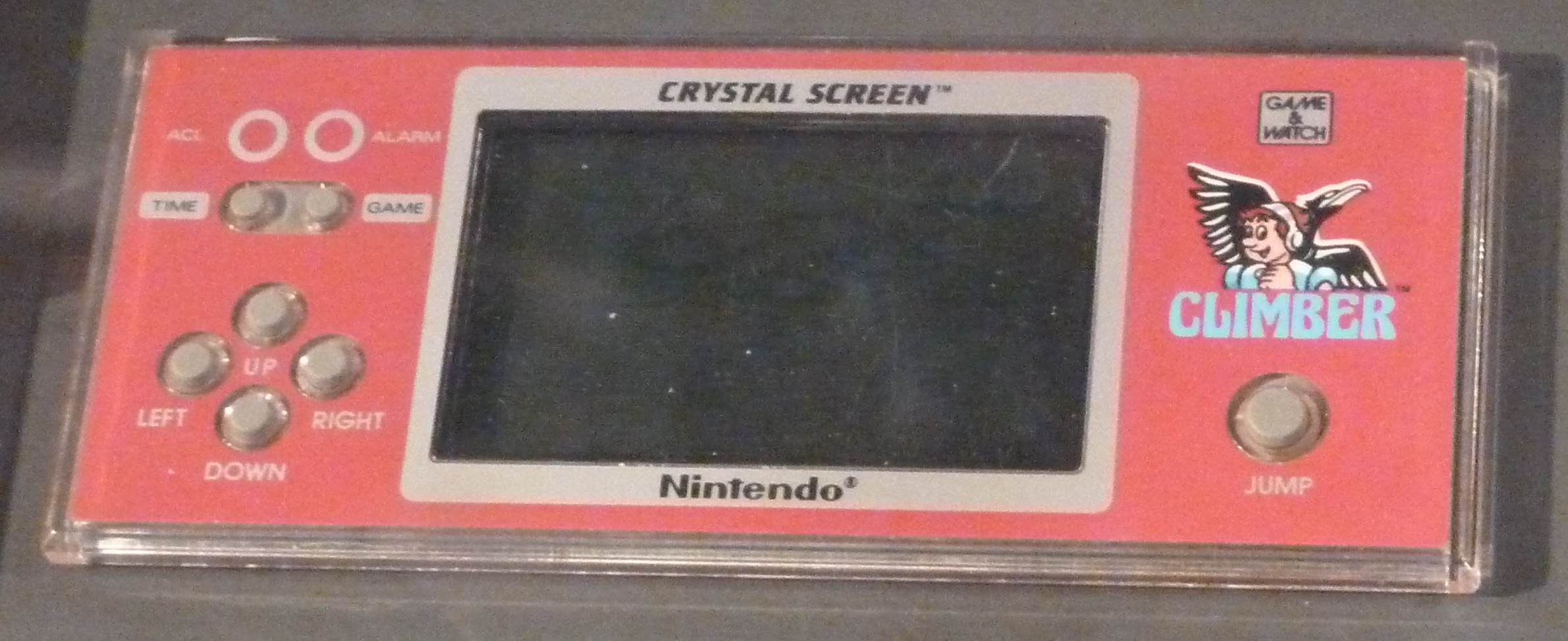 Climber - Game&Watch - Nintendo